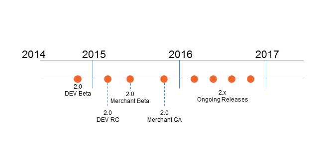 Roadmap Magento 2